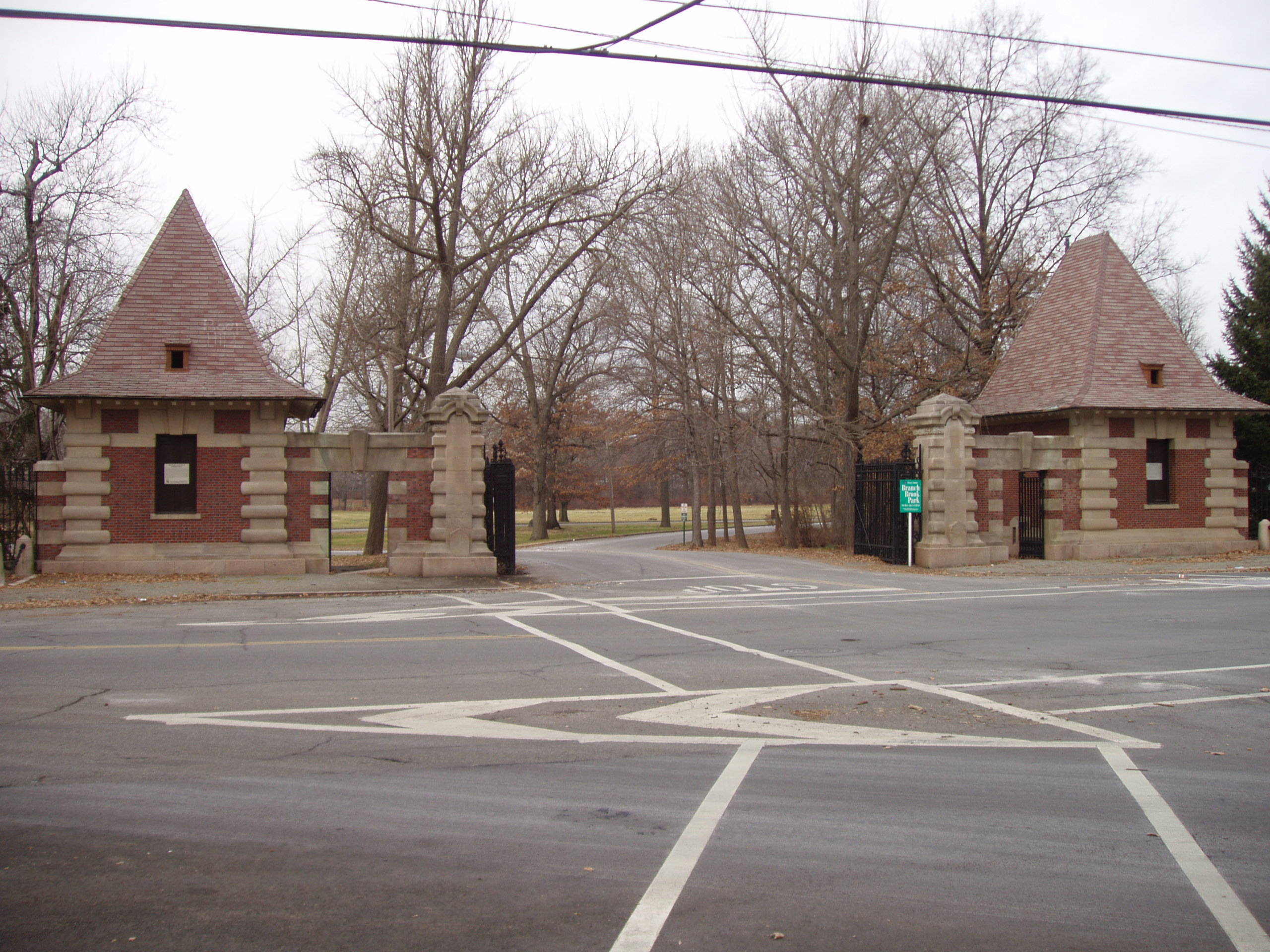 picture of Ballantine Gates, Branch Brook Park. Taken 1/2/05 for Wikipedia dinopup